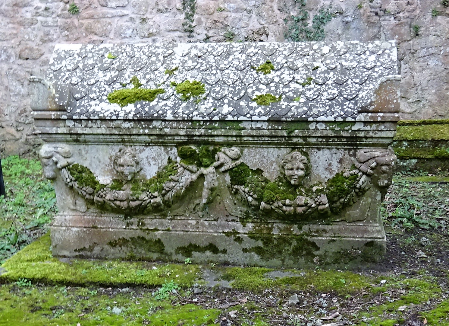 David Cathcart, Lord Alloway (1764–1829), a Scottish lord of session. Buried inside Alloway Auld Kirk, South Ayrshire, Scotland.